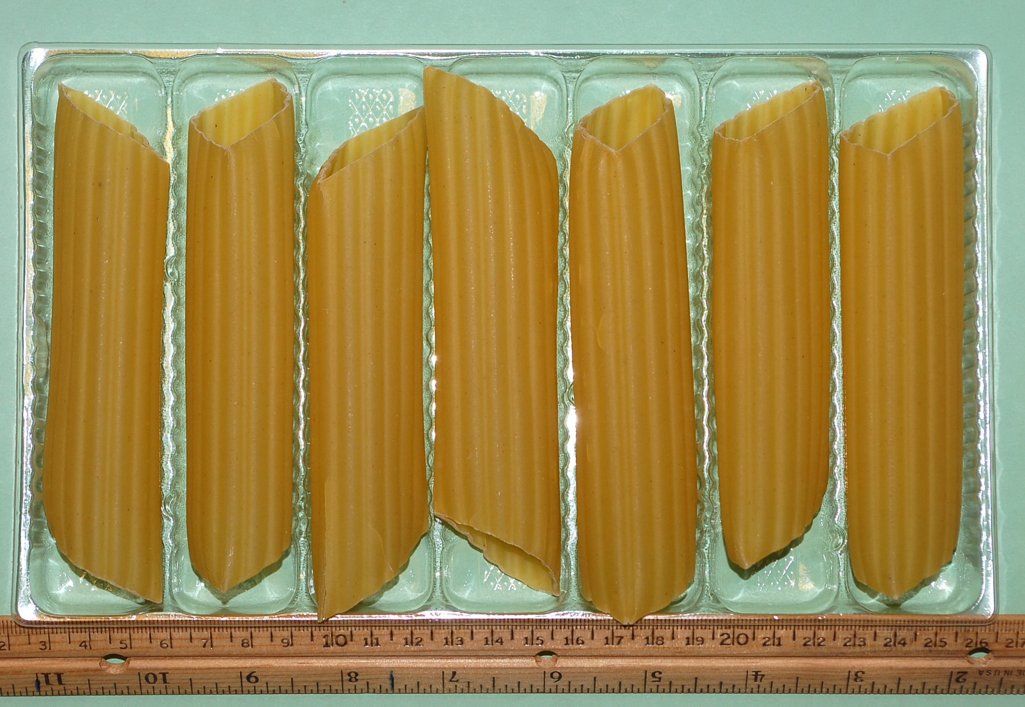 Manicotti with rule, pasta.